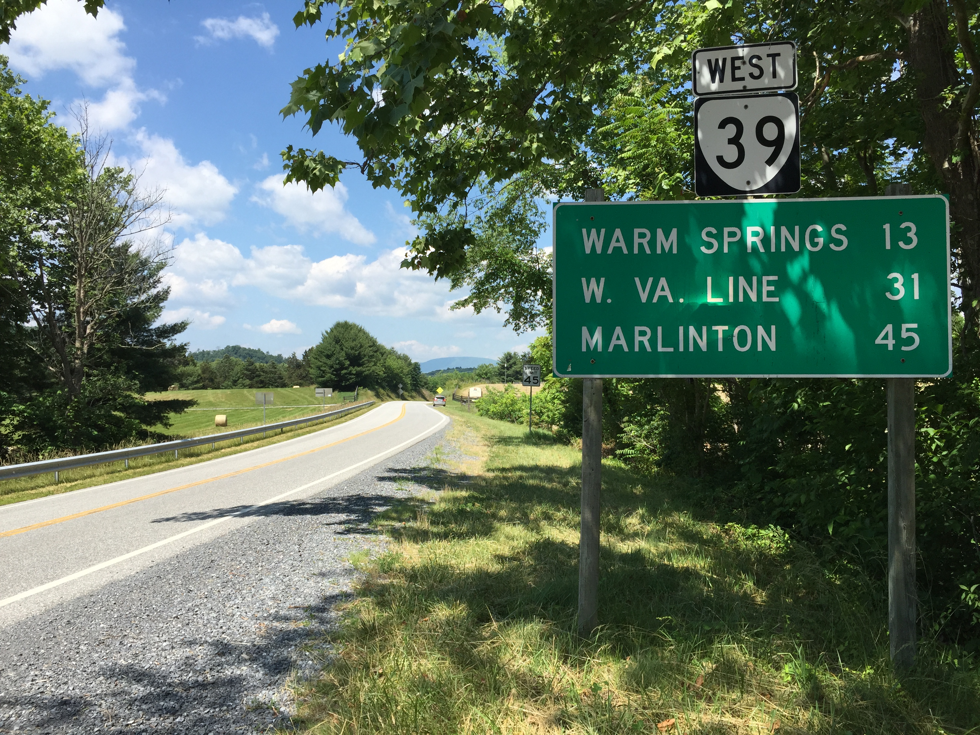 View west along Virginia State Route 39 (Mountain Valley Road) at Virginia State Route 42 (Cowpasture River Highway) in Millboro Springs, Bath County, Virginia